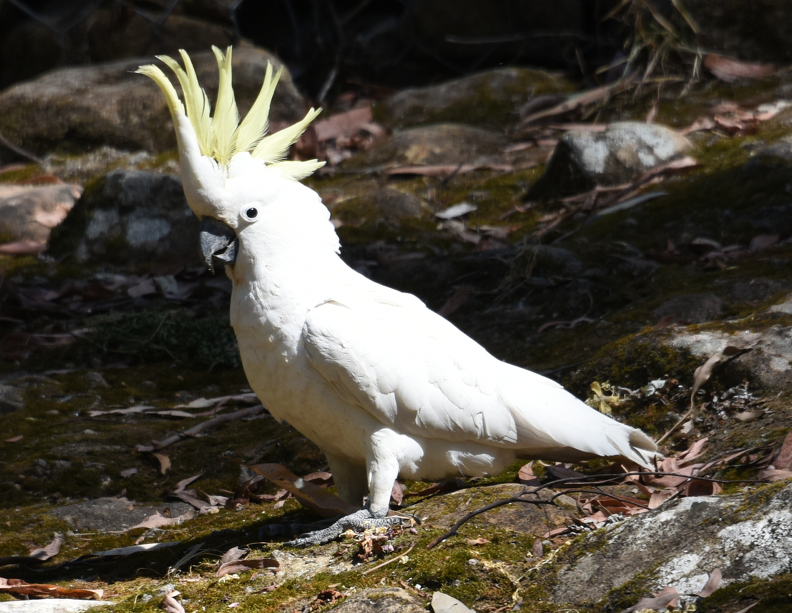 Sulphur-crested cockatoo, Lane Cove River, Cheltenham area, Sydney